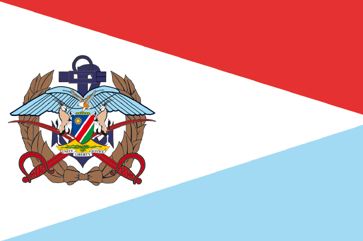 Flag of the Namibian Defence Force NDF